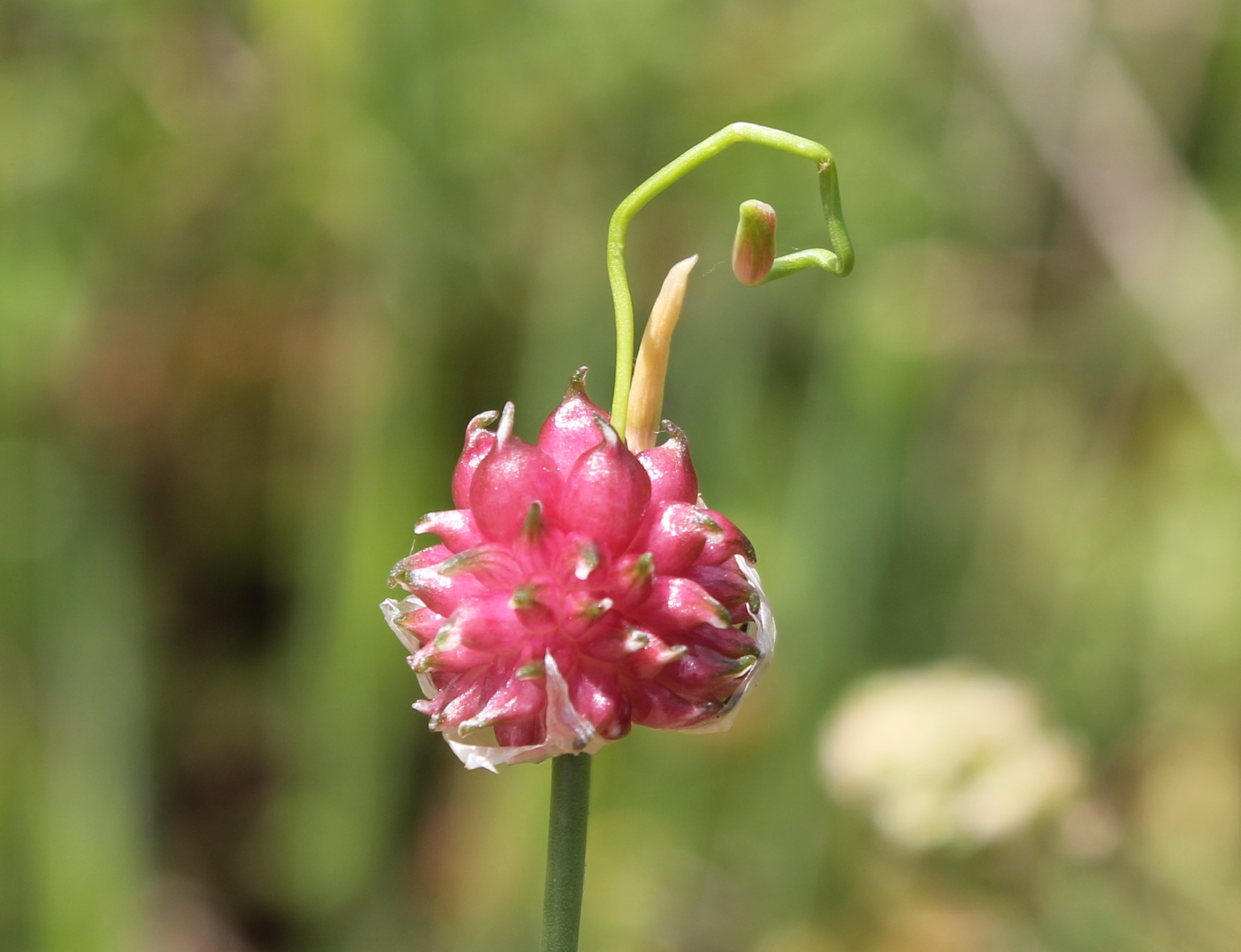 Allium vineale flower